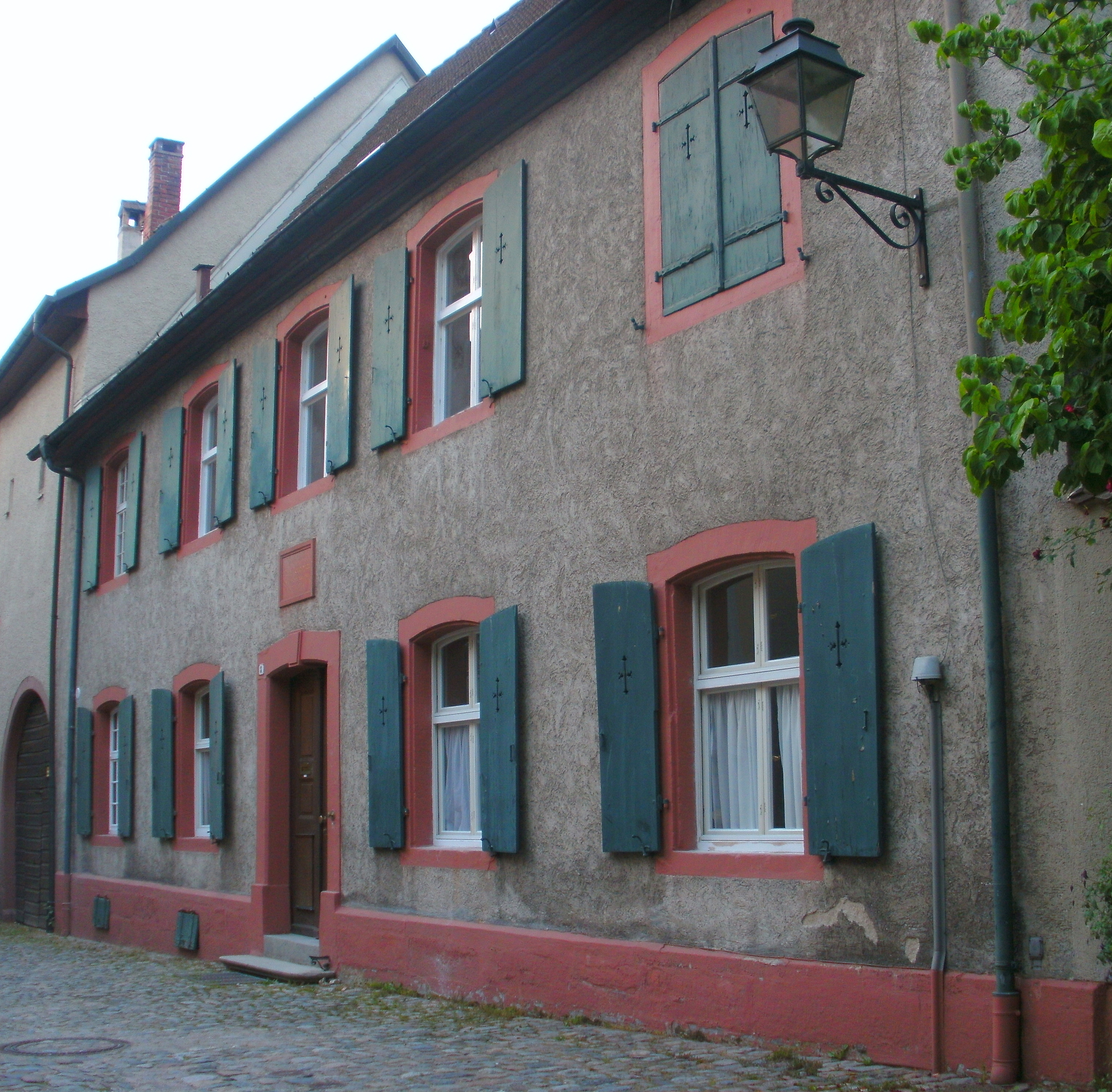 The former latin school in Schopfheim, Landkreis Lörrach, Germany. From spring 1773 to April 1774 the later alemannic short story writer and dialectal poet Johann Peter Hebel, lived there as a student in the official residence of his teacher, the deacon Karl Friedrich Obermüller.